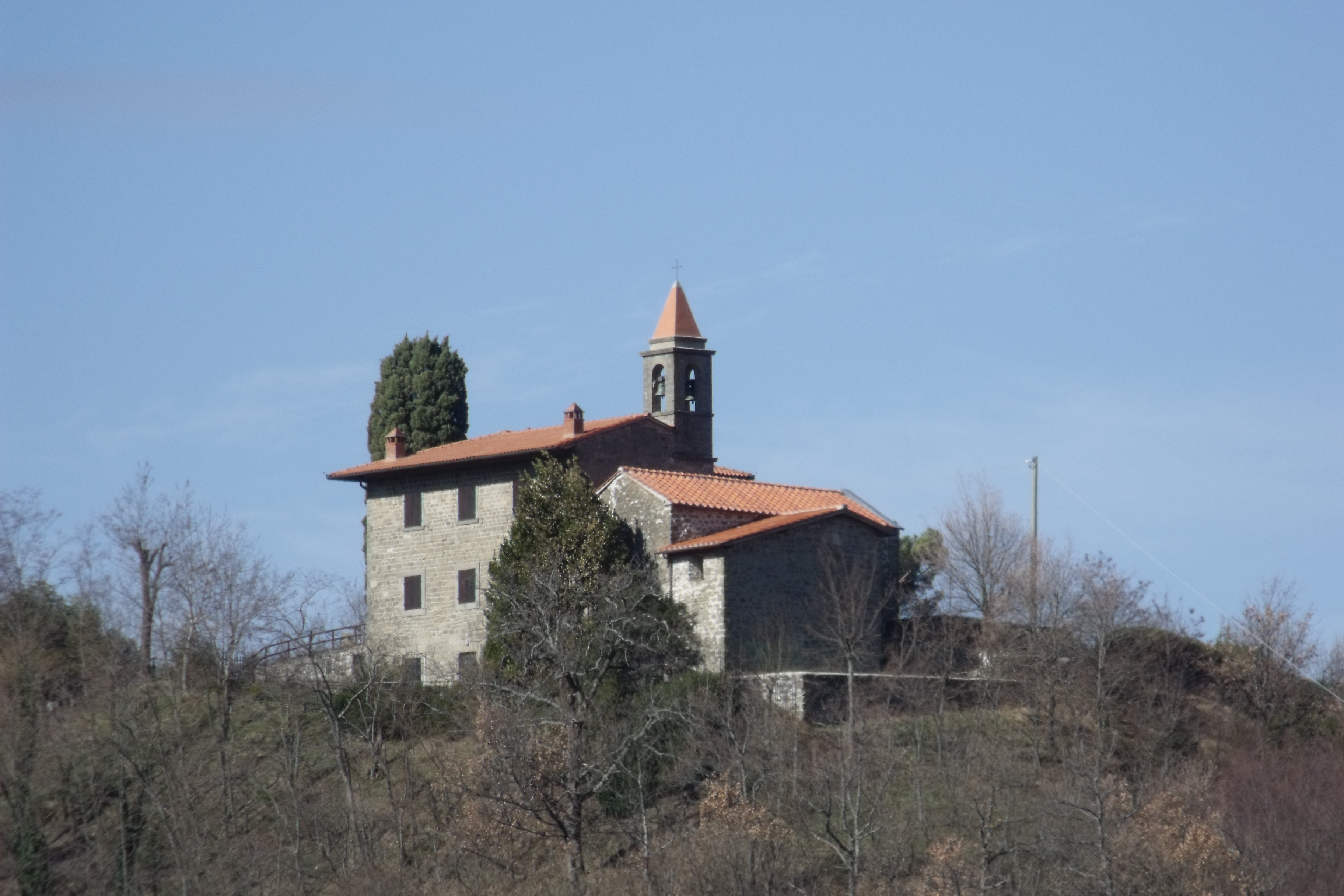 Church of Santa Maria a Ficciana near San Godenzo, Province of Florence, Tuscany, Italy